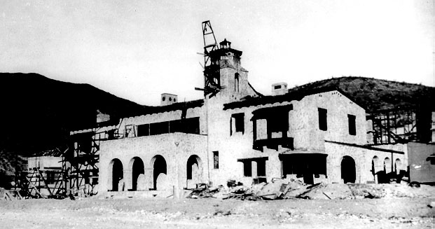 Scotty's Castle in Death Valley National Park under construction